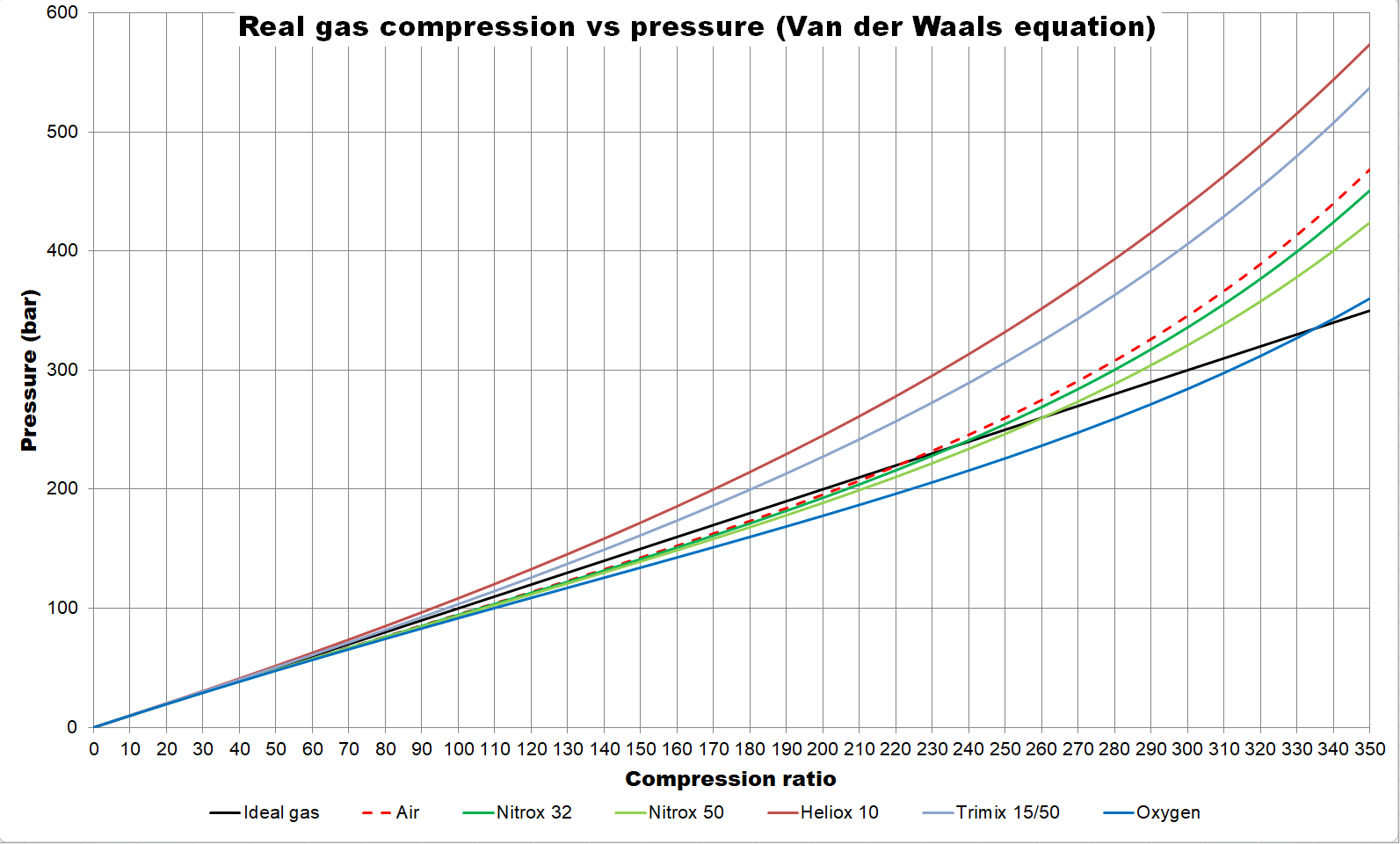 Graph of pressure versus compression ratio calculated for typical diving gases using Van der Waals equation of state at constant temperature (293K)